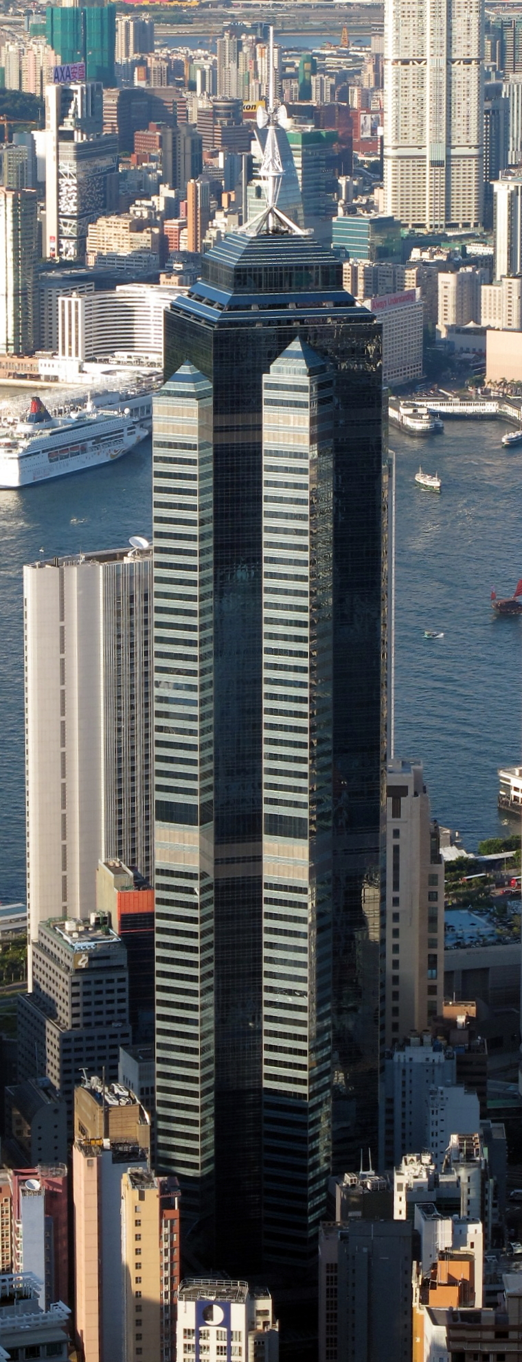 The Center 中環中心